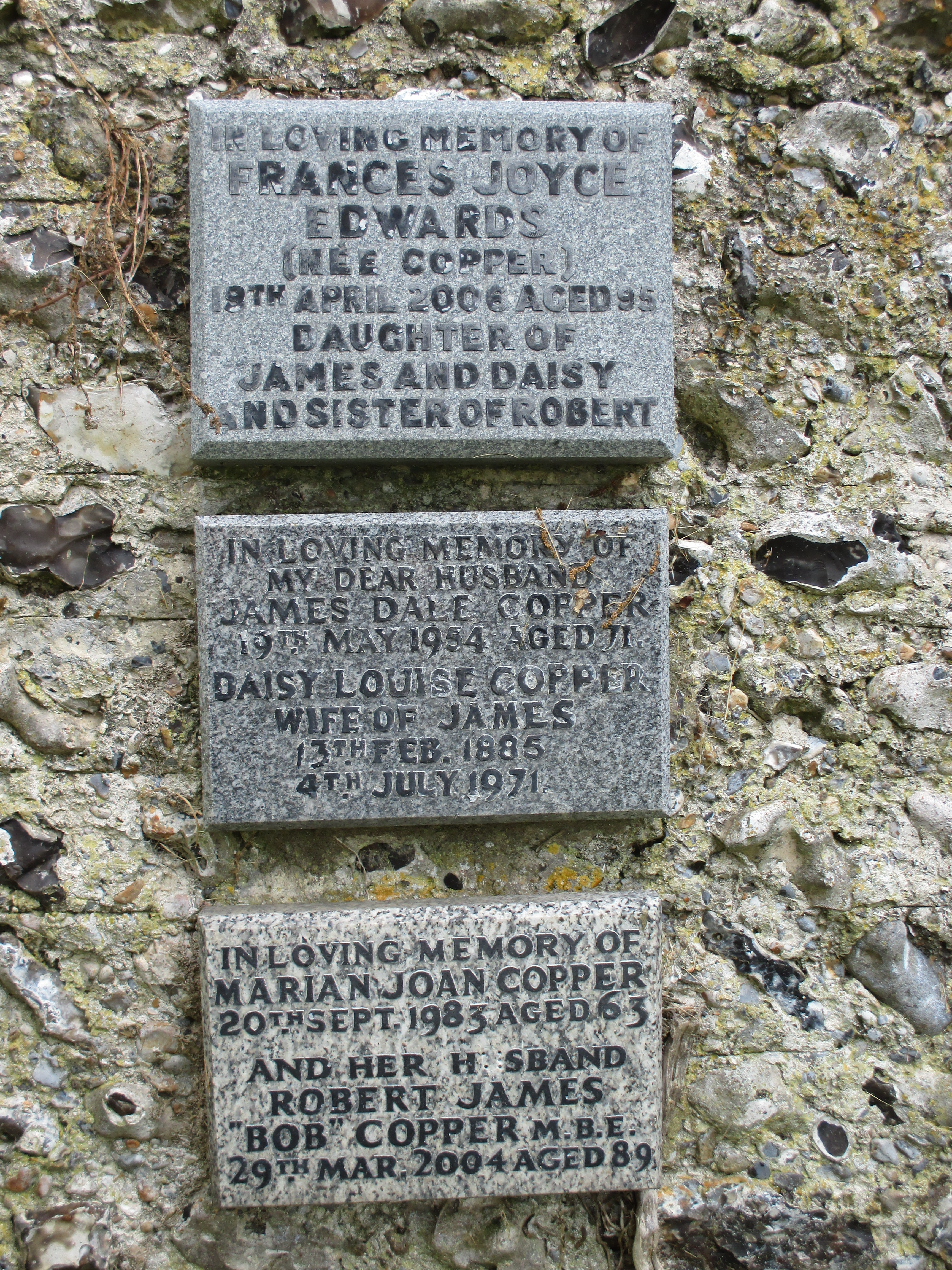 Memorial tablets for members of the folk-singing Copper family, in the churchyard of St Margaret's Church, Rottingdean, East Sussex.